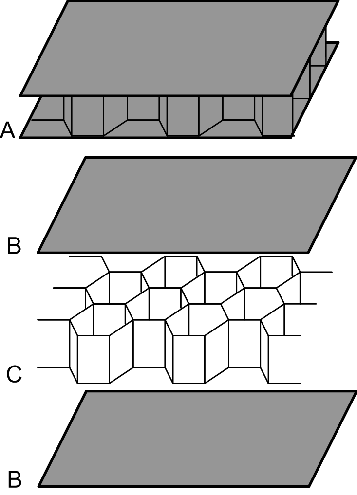 Diagram of a composite sandwich panel (see [1] ) showing complete panel ("A"), face plates/sheets ("B"), and honeycomb core ("C") (alternately, foam core).